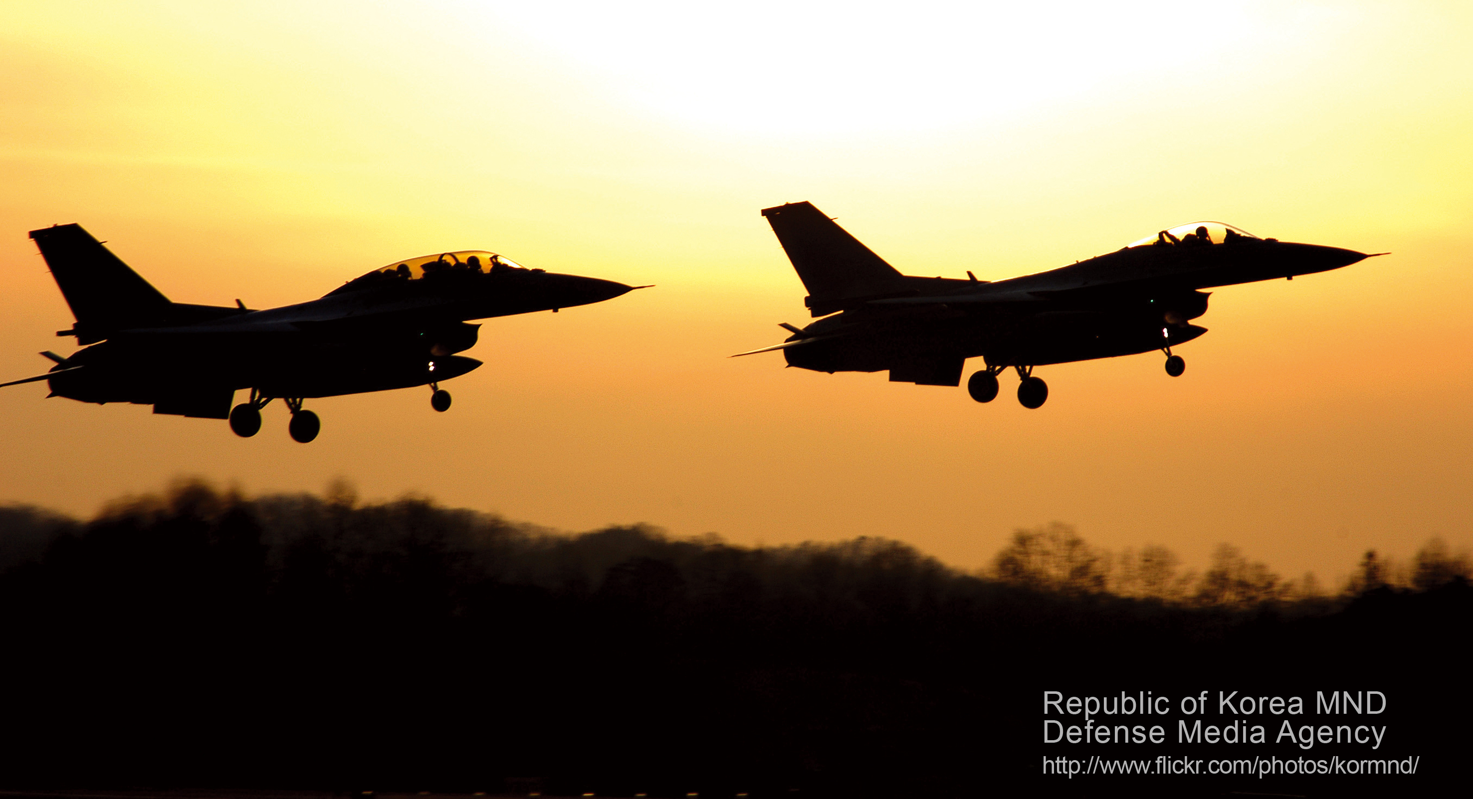 2008 국방화보 Rep. of Korea, Defense Photo Magazine 석양을 날고 있는 KF-16전투기 모습 ROK AF KF-16s flying on the Background of the setting sun